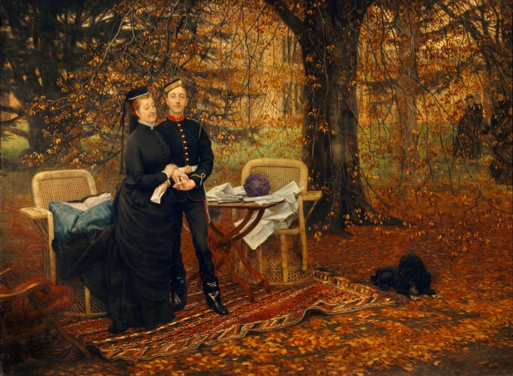 The Empress Eugénie and her son.